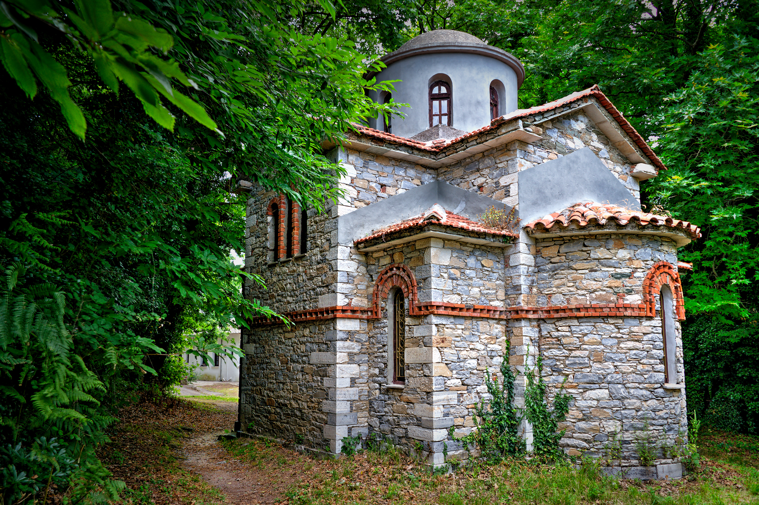 This is a photography of Natura 2000 protected area with ID GR1430001